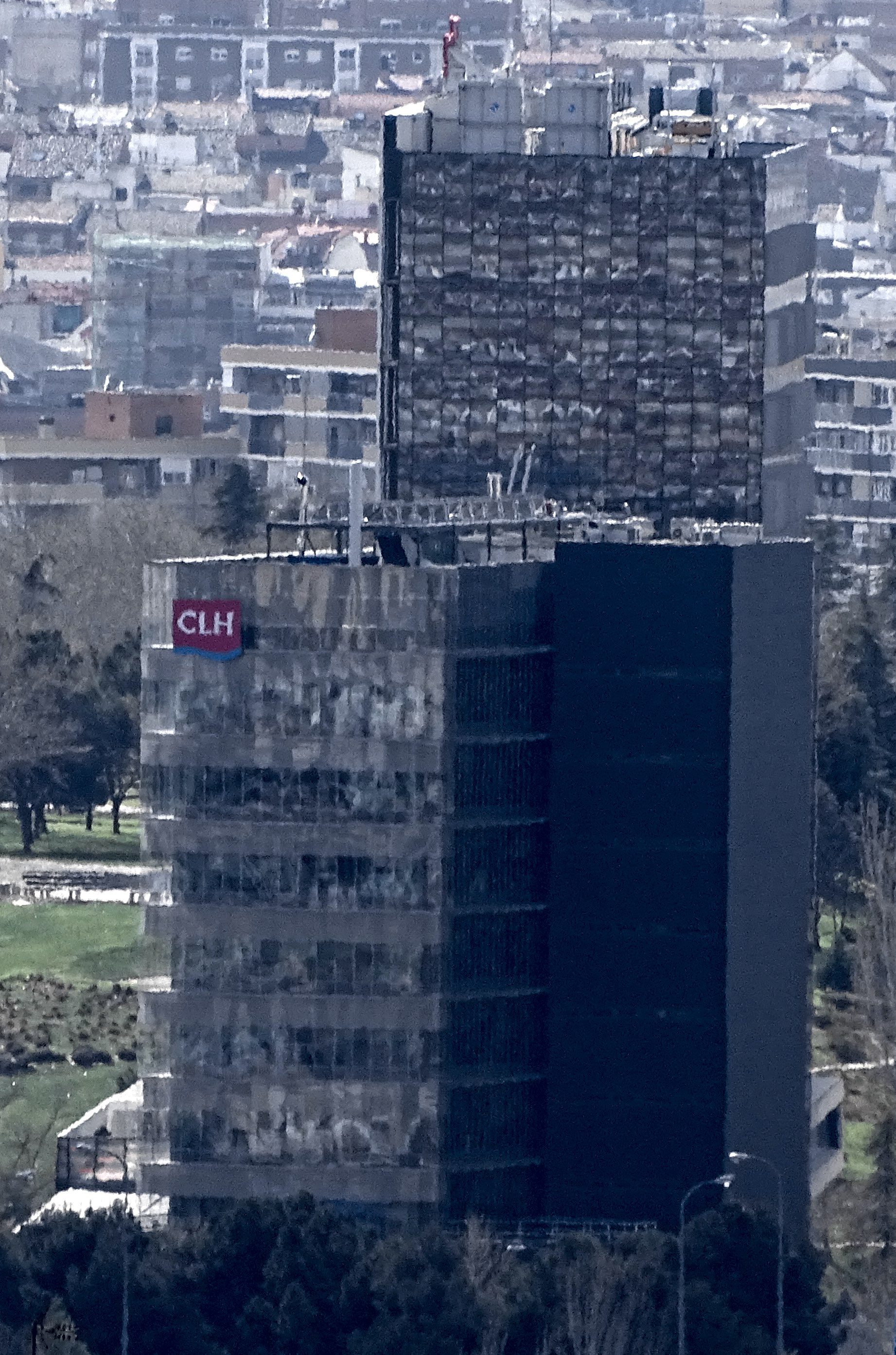 CLH Headquarters in Madrid